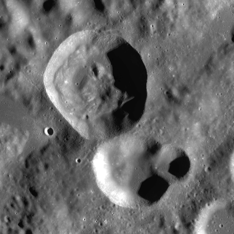 Craters Auzout (upper) and van Albada (lower) on the Moon. Mosaic of photos by Lunar Reconnaissance Orbiter, made with Wide Angle Camera. Size of the image is 70×70 km, north is up.